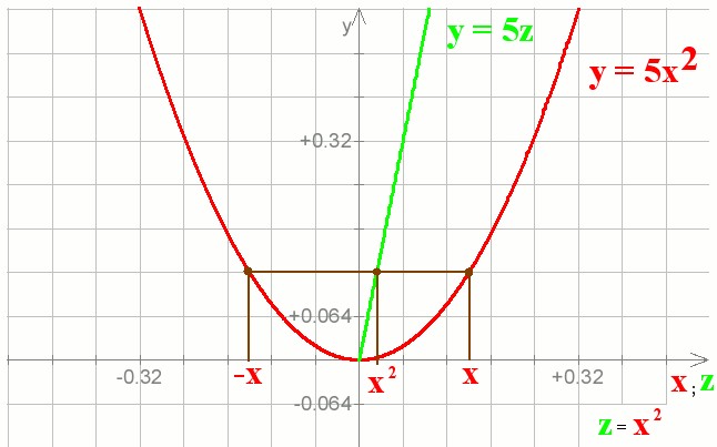 Linearization of parabolic function through exchange of variables on horizontal axis.